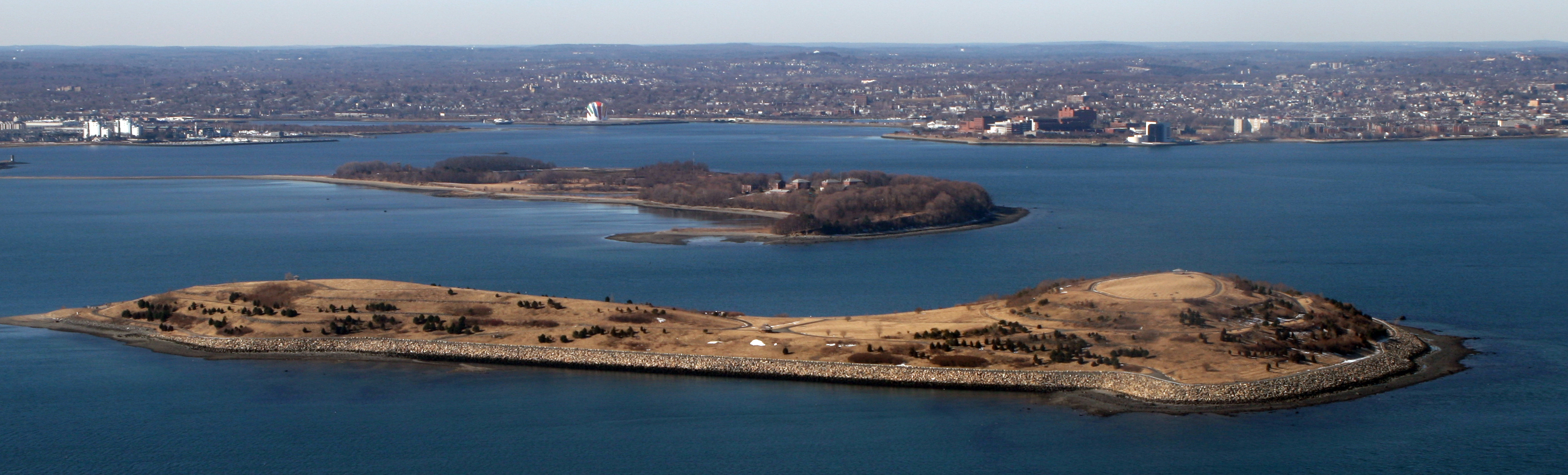 Spectacle island located in the Boston harbour, Massachusetts. Behind it is Thompson Island.